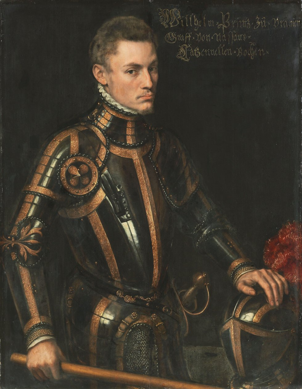 Copy of a painting by Antonis Mor, dating from 1555.